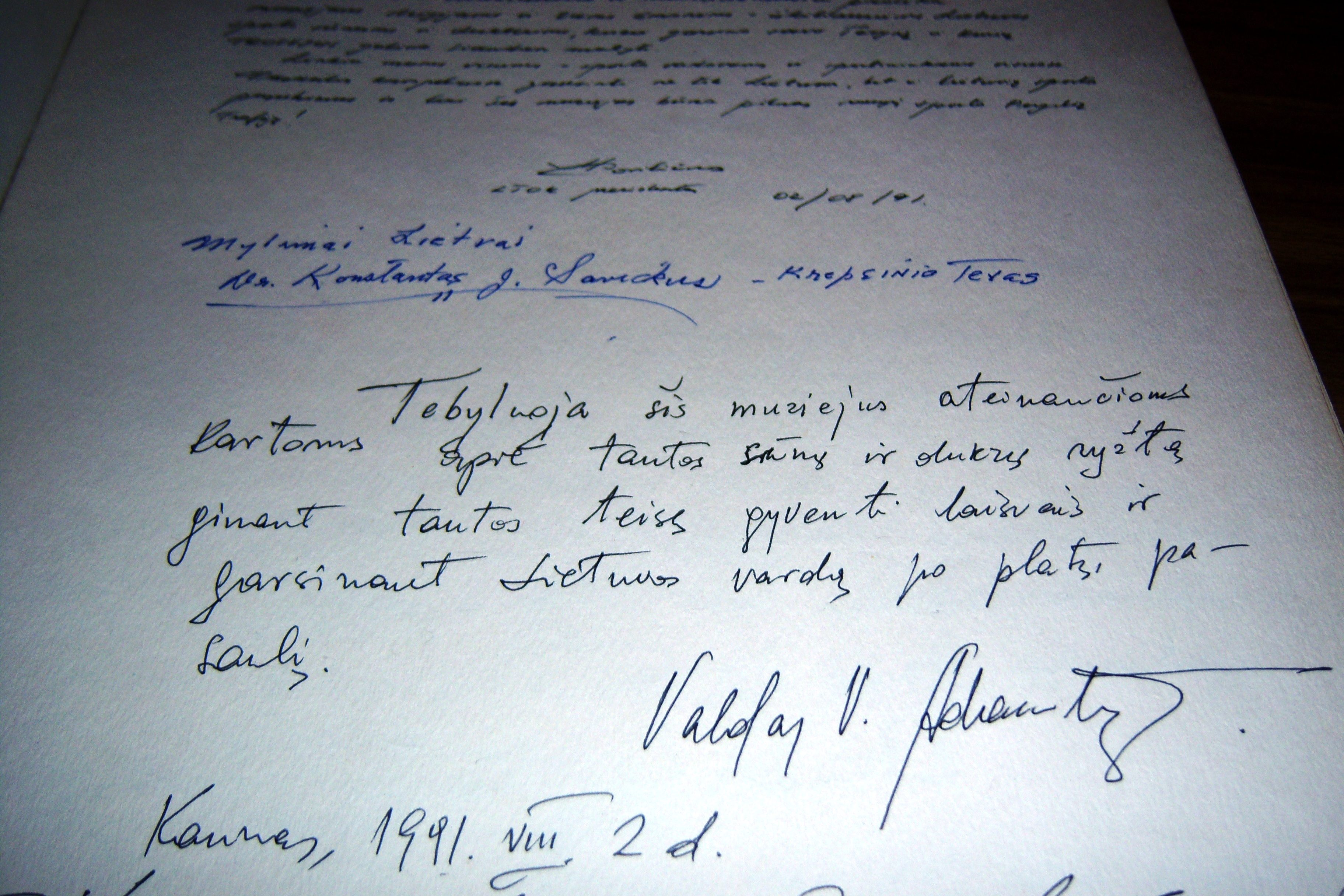 Signature of Valdas Adamkus in the guest book of the Sports Museum, 1991, Kaunas, Lithuania